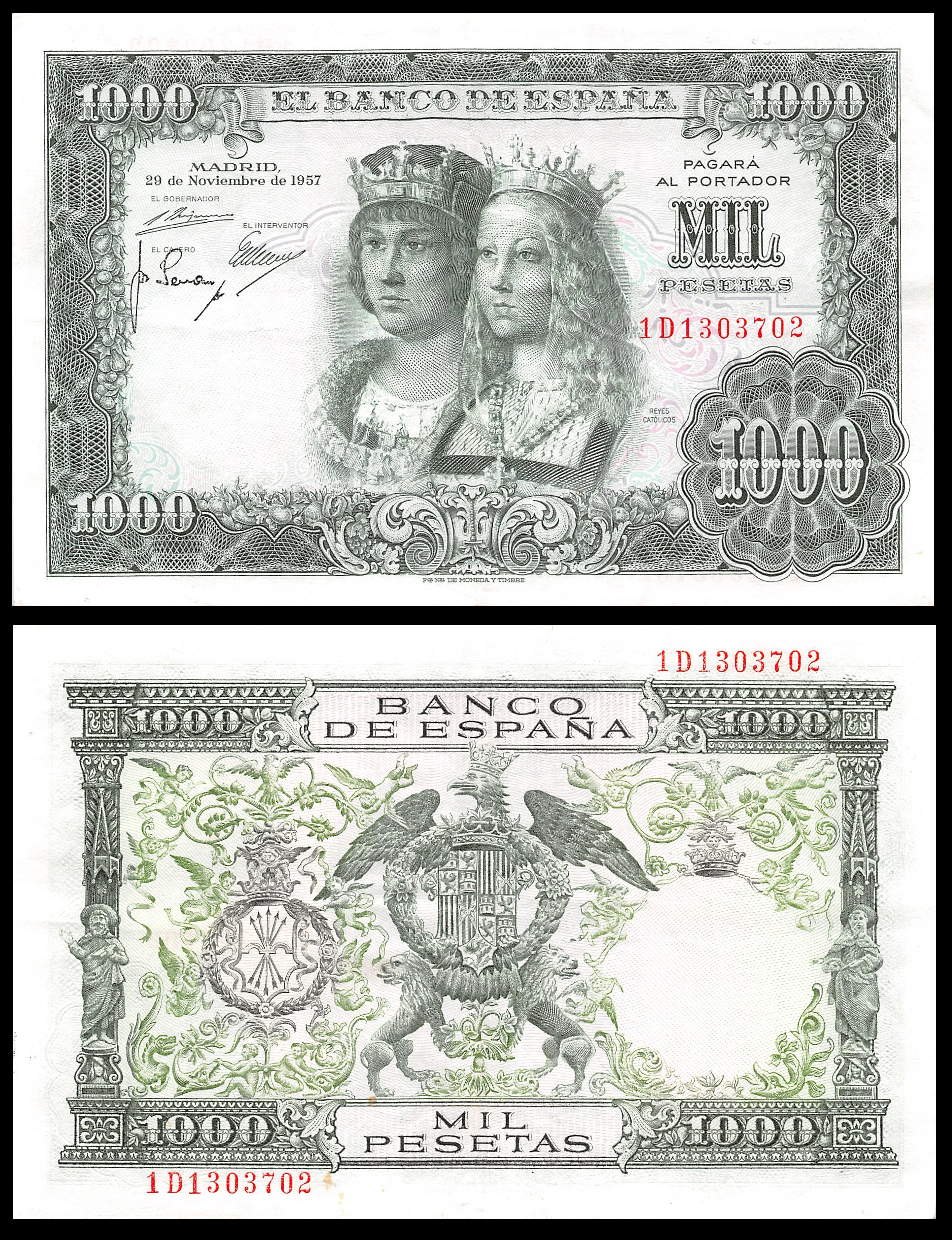 1000 Spanish pesetas. Obverse: Catholic Monarchs, reverse: coat of arms of Spain.